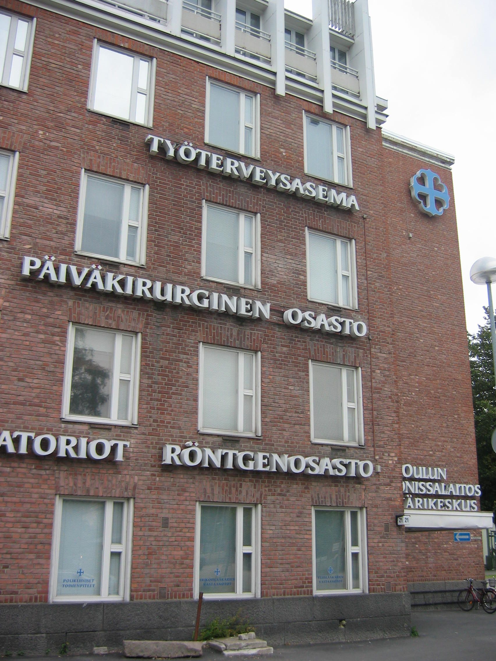 The medical centre "Oulun diakonissalaitos" in the city of Oulu, Finland.